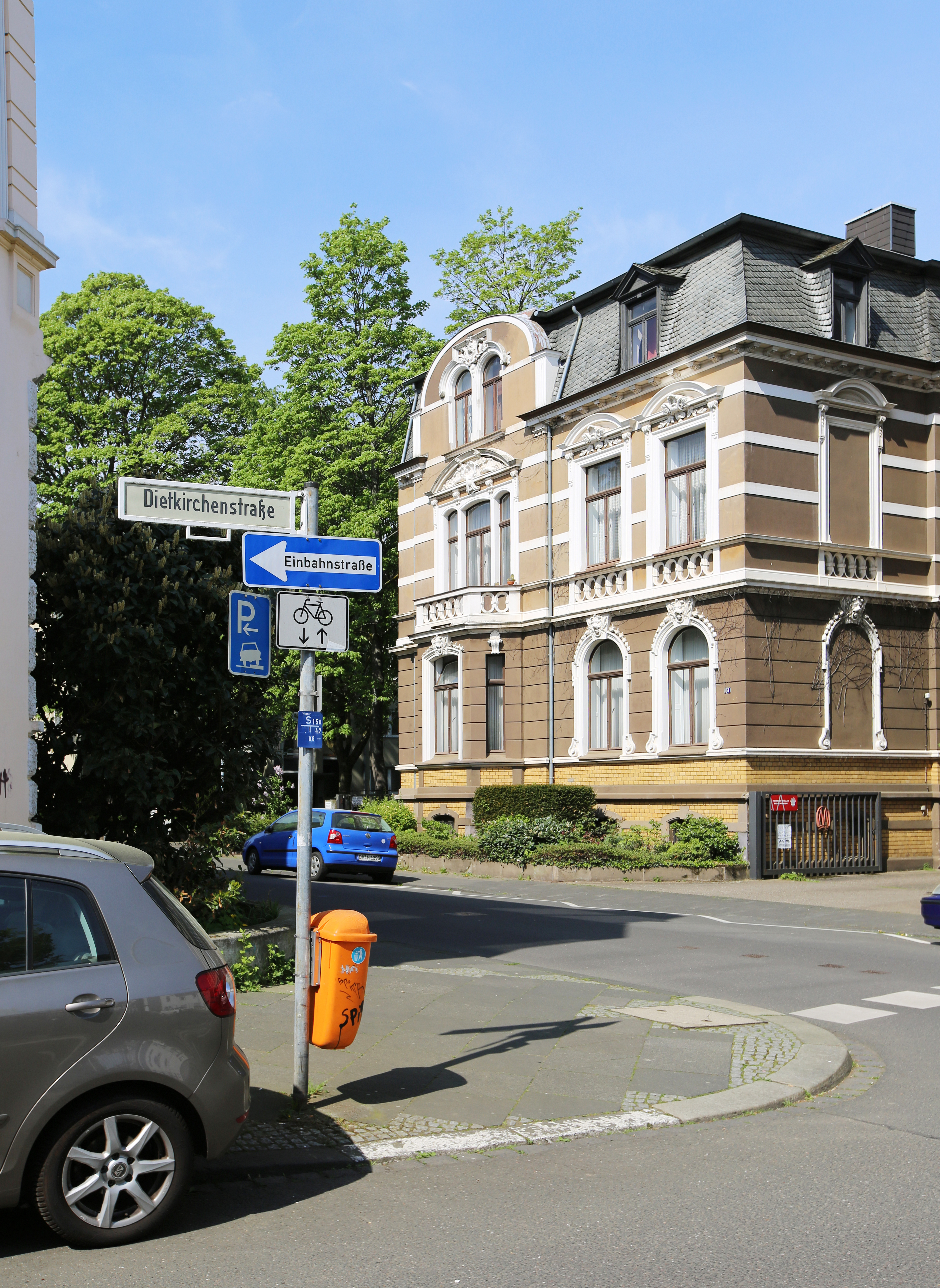 Dietkirchenstreet in Bonn, Germany